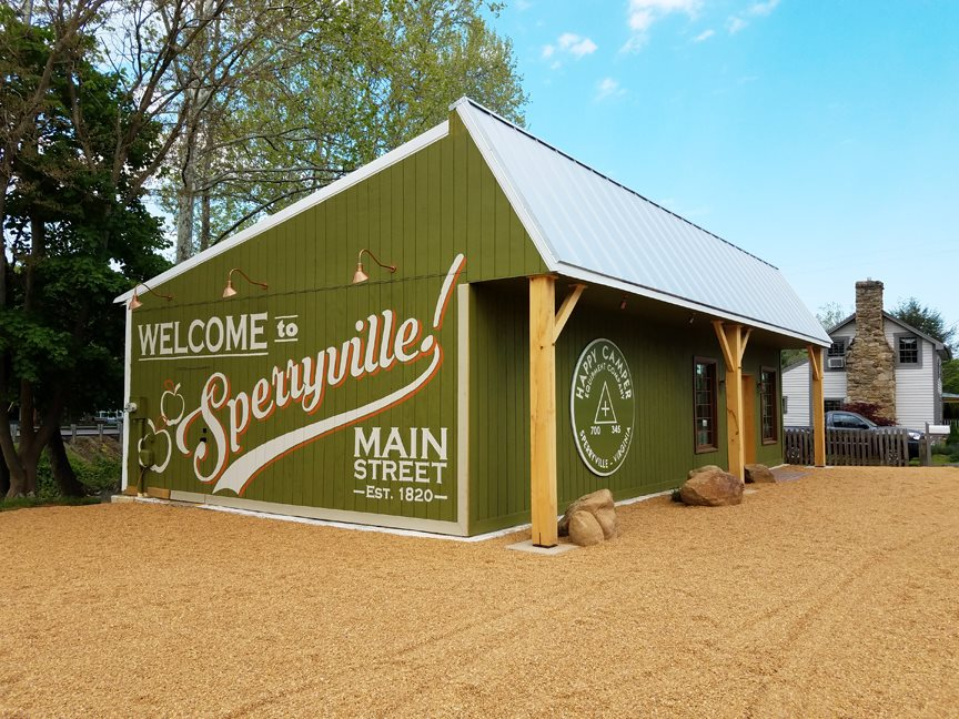 A hand painted, multi-color mural welcoming visitors to one entrance to historic Main Street in Sperryville, Virginia. The mural utilizes vintage & rural styling with agrarian motifs historically relevant to Sperryville and Rappahannock County.